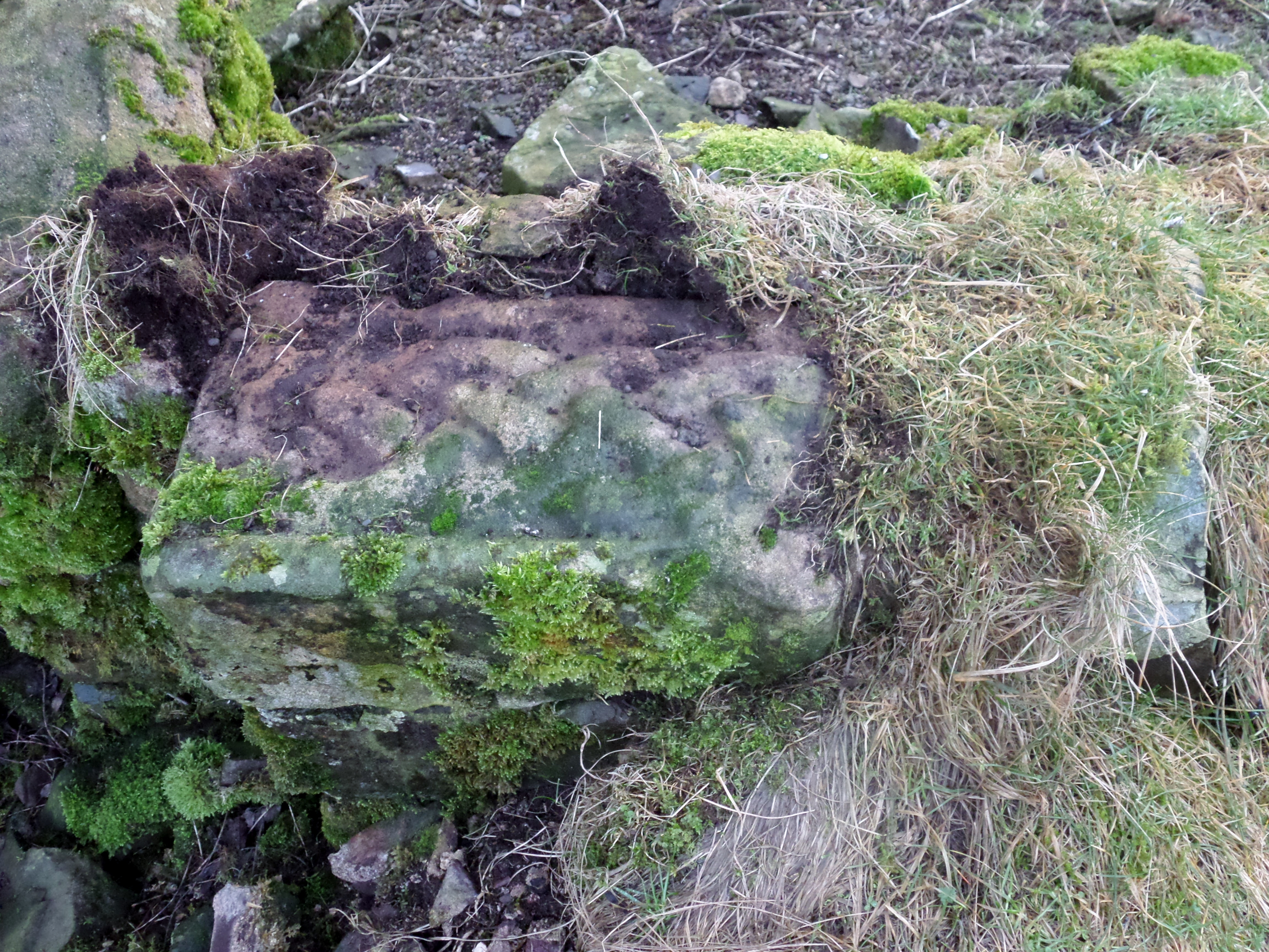 Kirkbride, Enterkinfoot, Nithsdale - sacristy & old cross shaft with Celtic interlace carving.